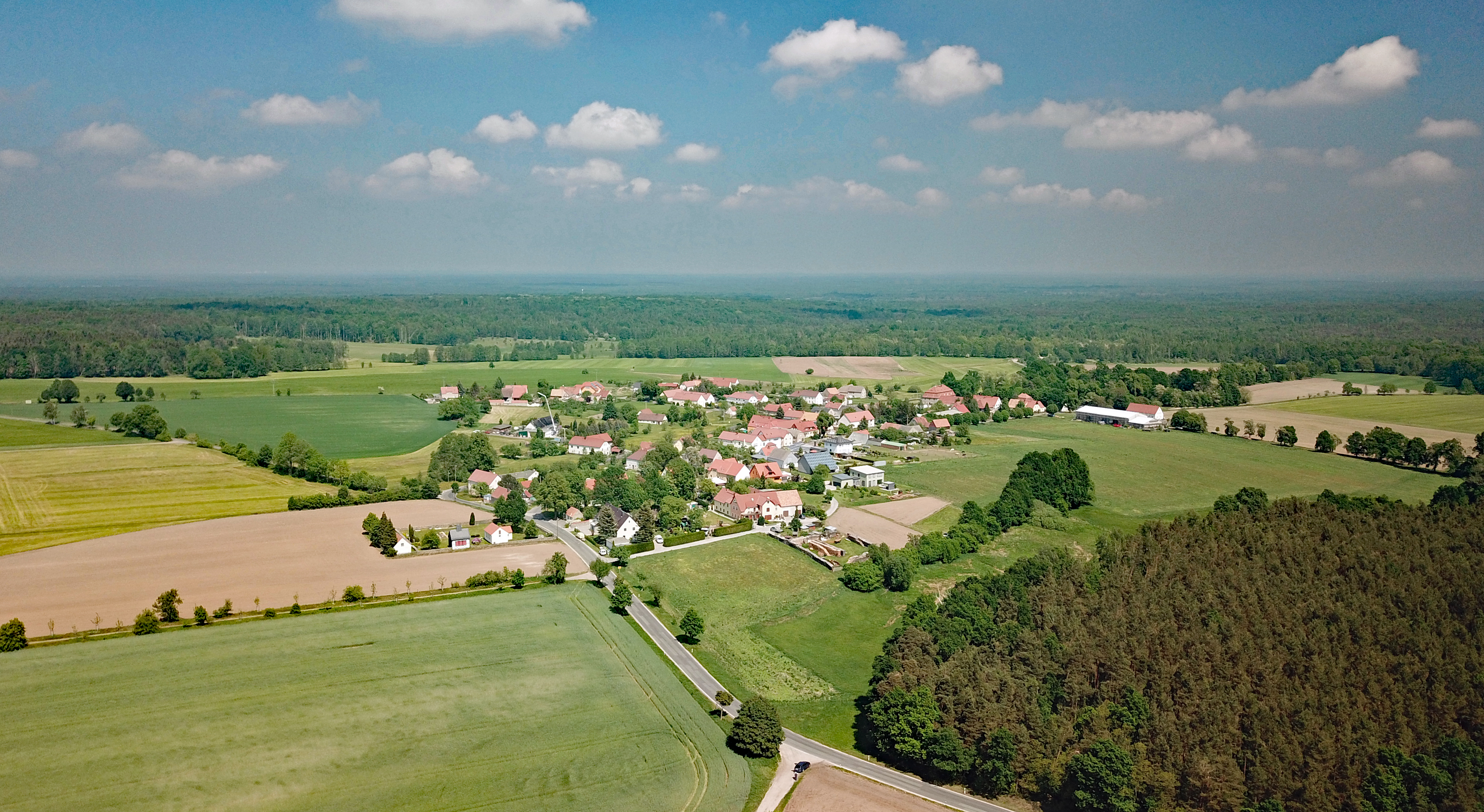 Röhrsdorf (Haselbachtal, Saxony, Germany)